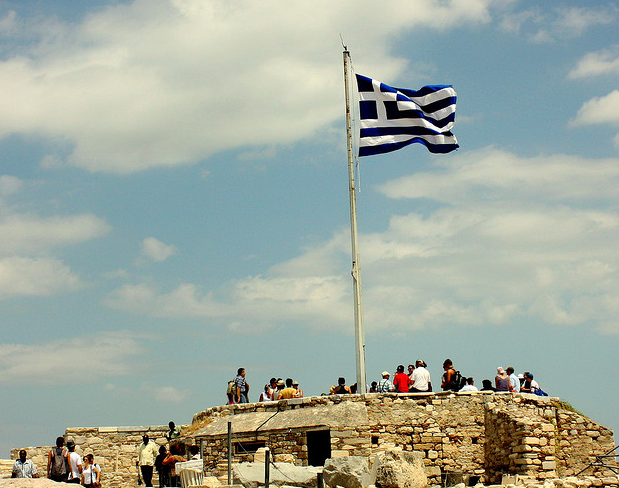 The Greek flag flying on the Acropolis of Athens.